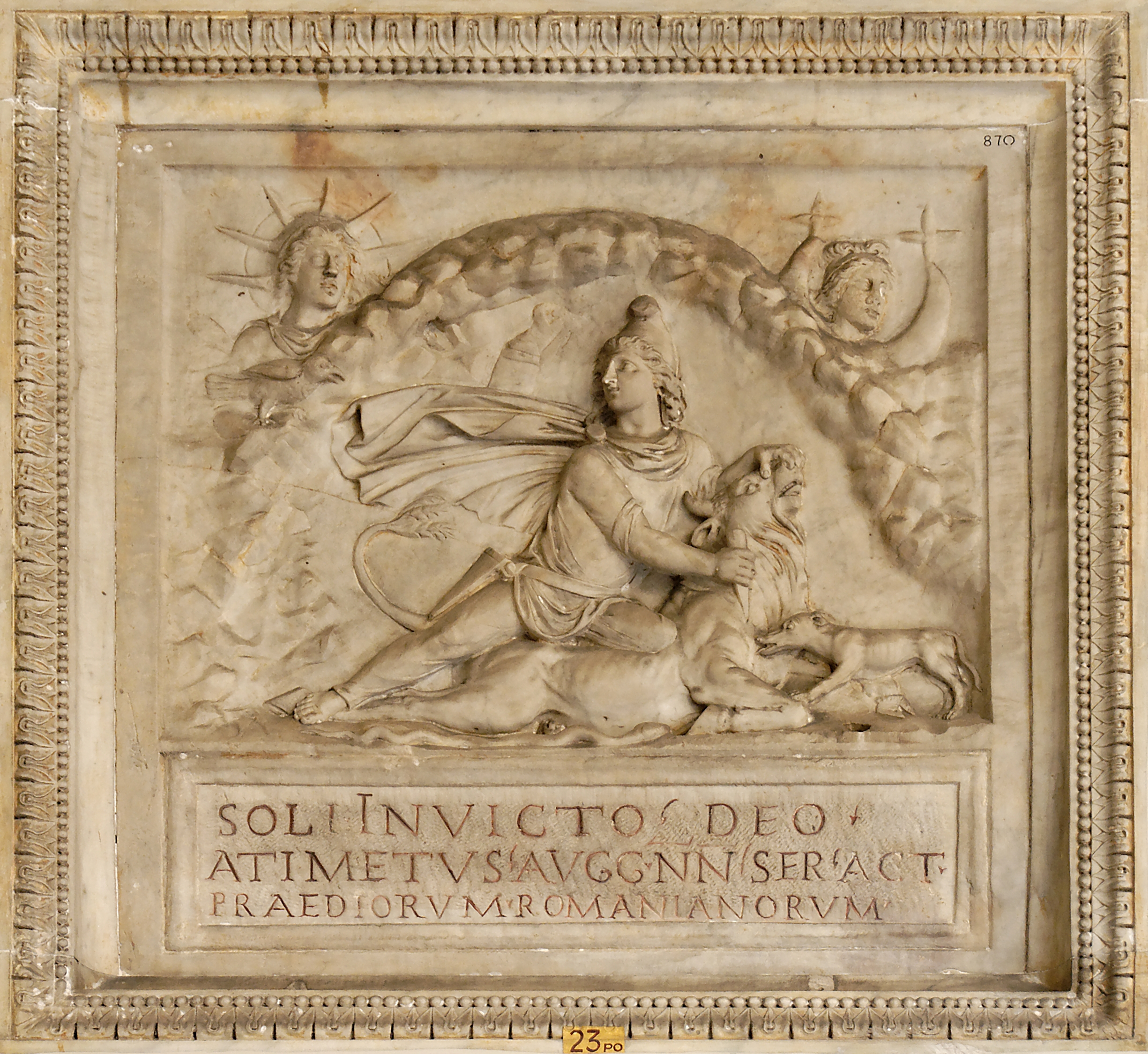 Relief dedicated by two Imperial slaves, with a tauroctony and the inscription: “Soli invicto deo / Atimetus Aug(ustorum) n(ostrorum) ser(vus) act(uarius) / praediorum Romanianorum”. Marble, Roman artwork.